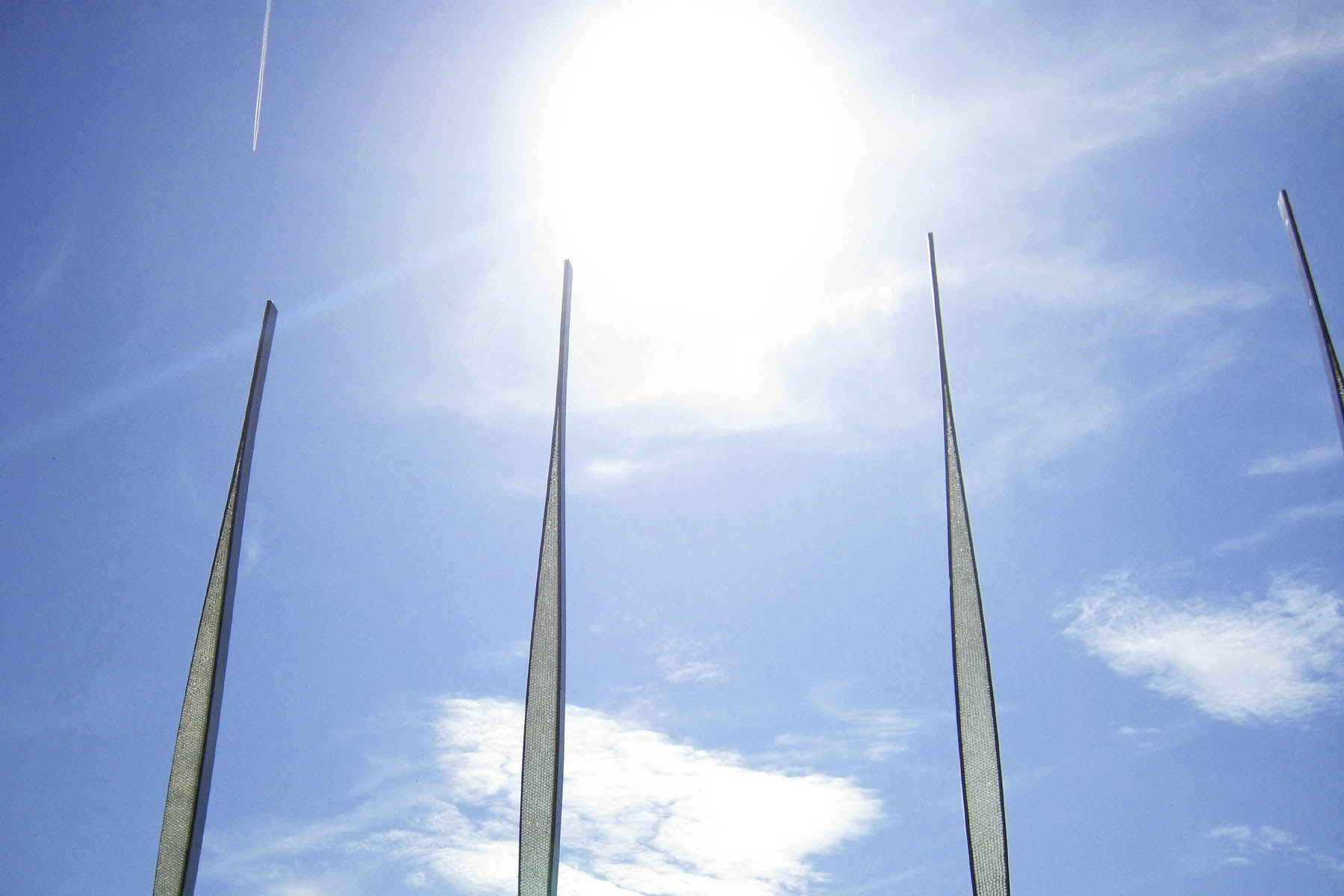 Vein by Tim Morgan, at the Cass Sculpture Foundation, Goodwood, West Sussex